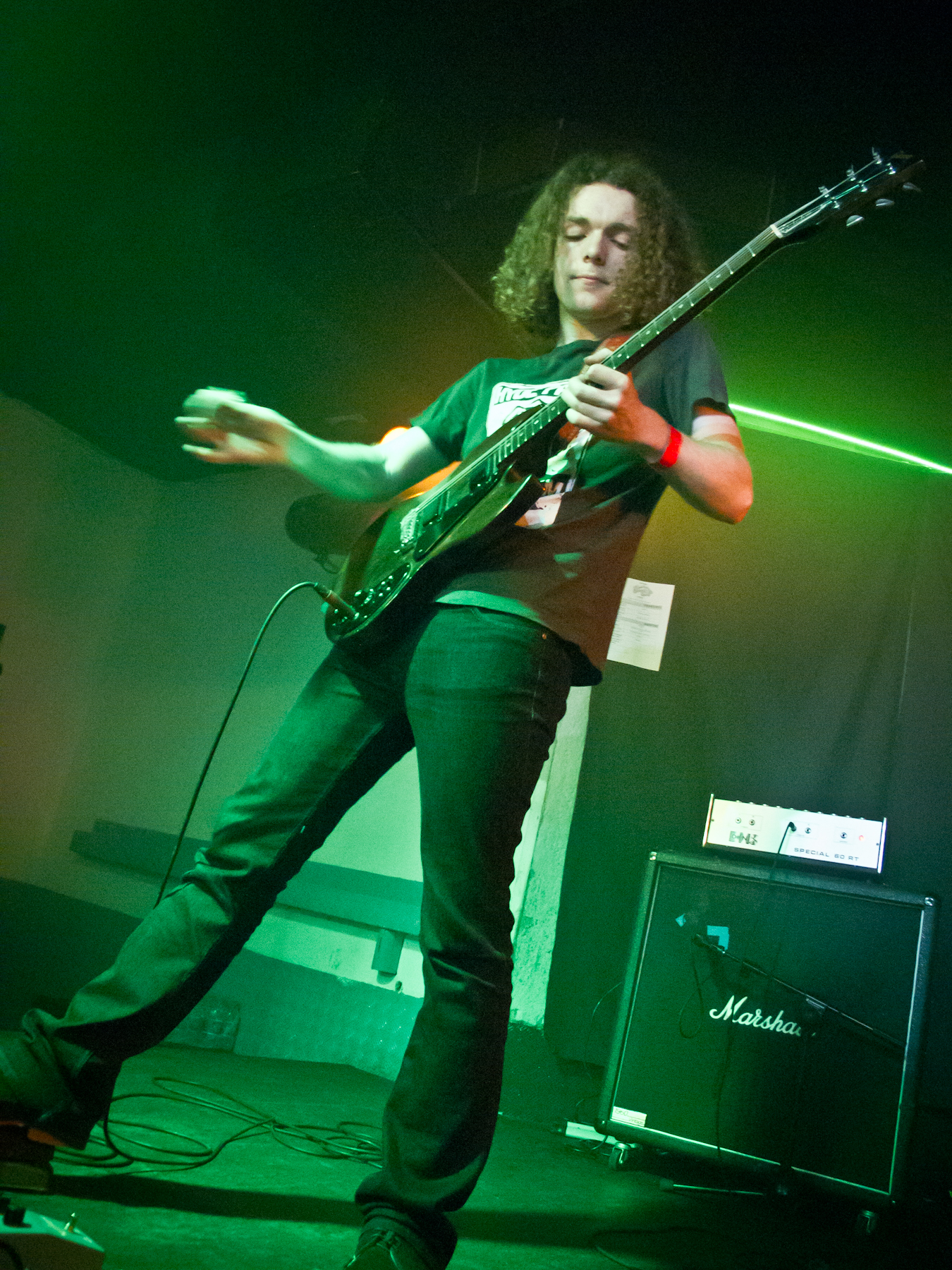 Blues Pills' guitarist Dorian Sorriaux live in Madrid in 2014.